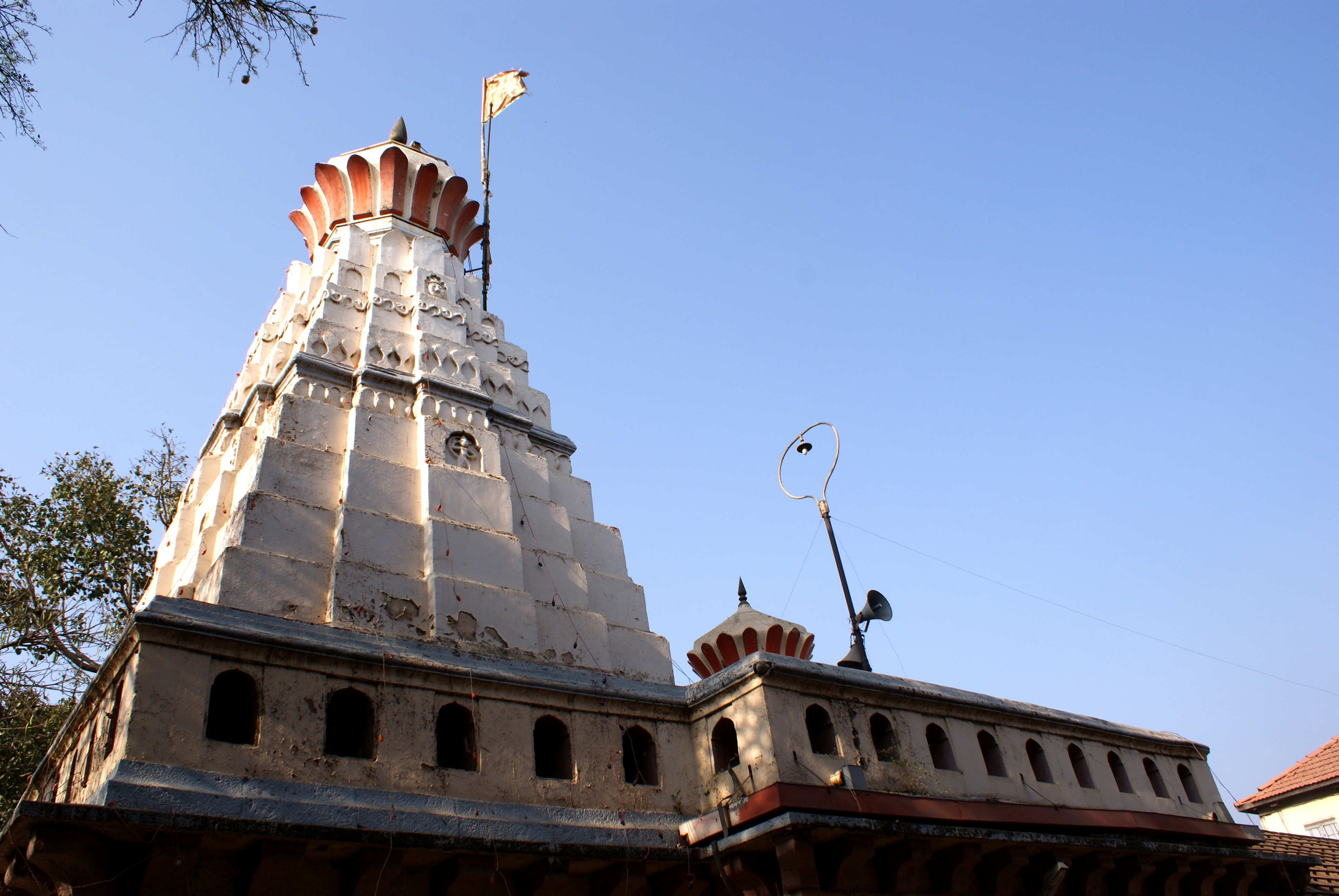 The village of Theur sits at the confluence of three major regional rivers—Mula, Mutha & Bhima. One of the stories I liked says that Brahma, once felt unease in his mind and wasn’t able to calm down. To still his mind he called upon Lord Ganesh. The place where Brahma achieved the quietude he was looking for is known as the Sthavar region or as Theur. Cintamani is the wishfulfilling jewel that is said to be in Ganesha's neck. This Ganesha is believed to fullfill all desires.